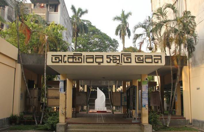 October Smriti Bhawan, Jagannath Hall, University of Dhaka. This Building was built on the memory of October Tragedy in 1985, University of Dhaka.